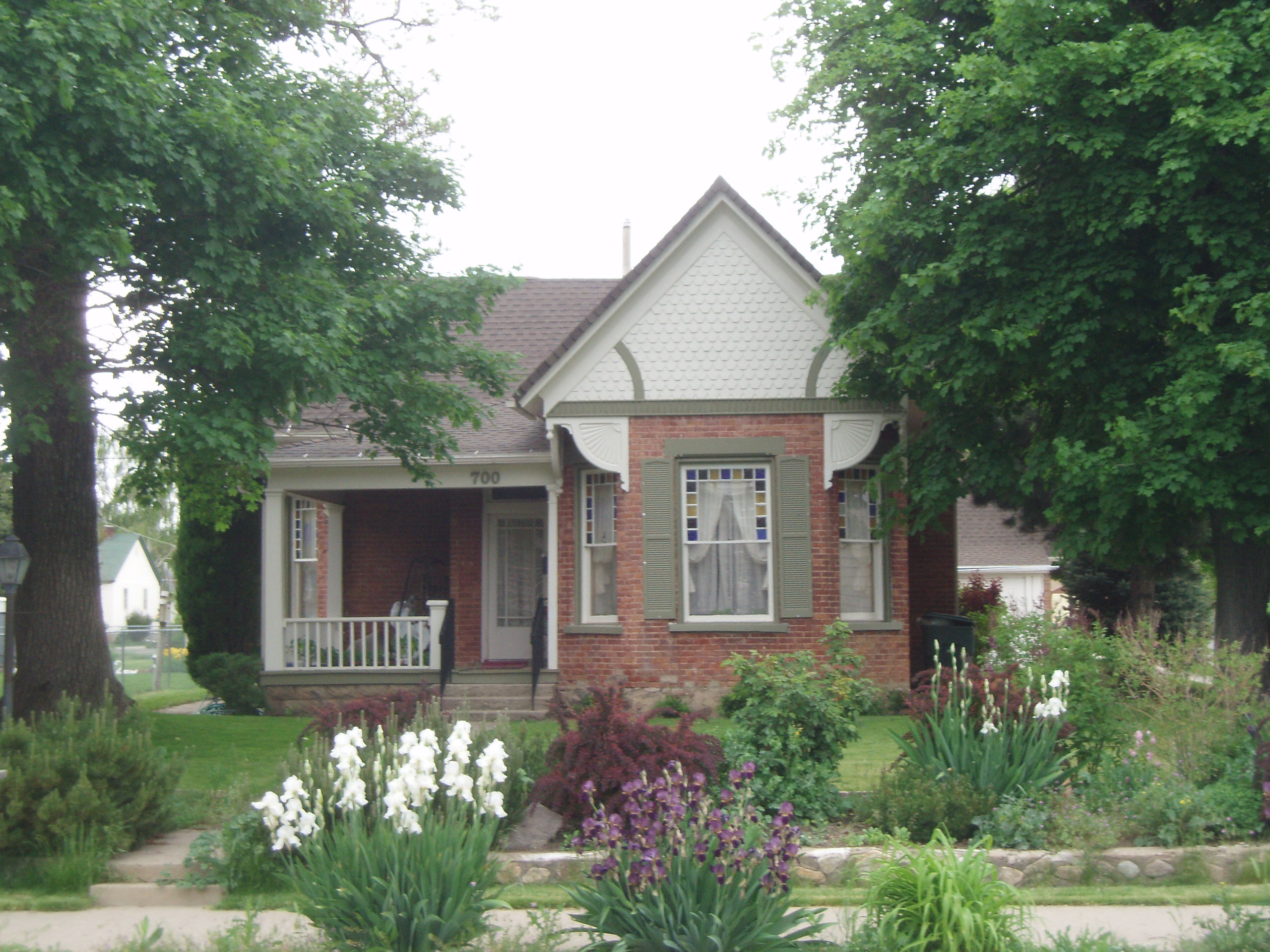 The Valasco Farr House, a historic home in Ogden, Utah, United States.